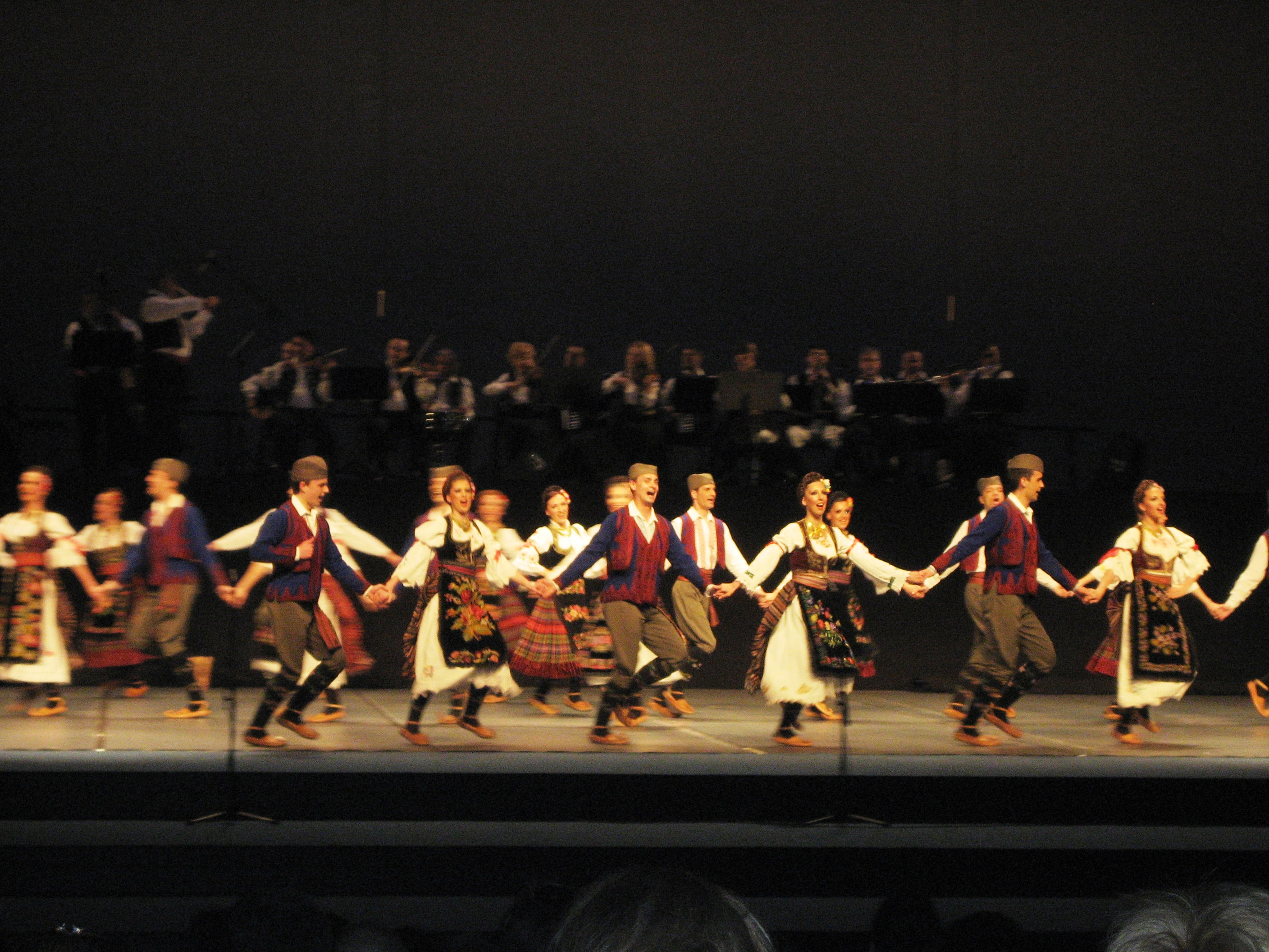 Serbian kolo